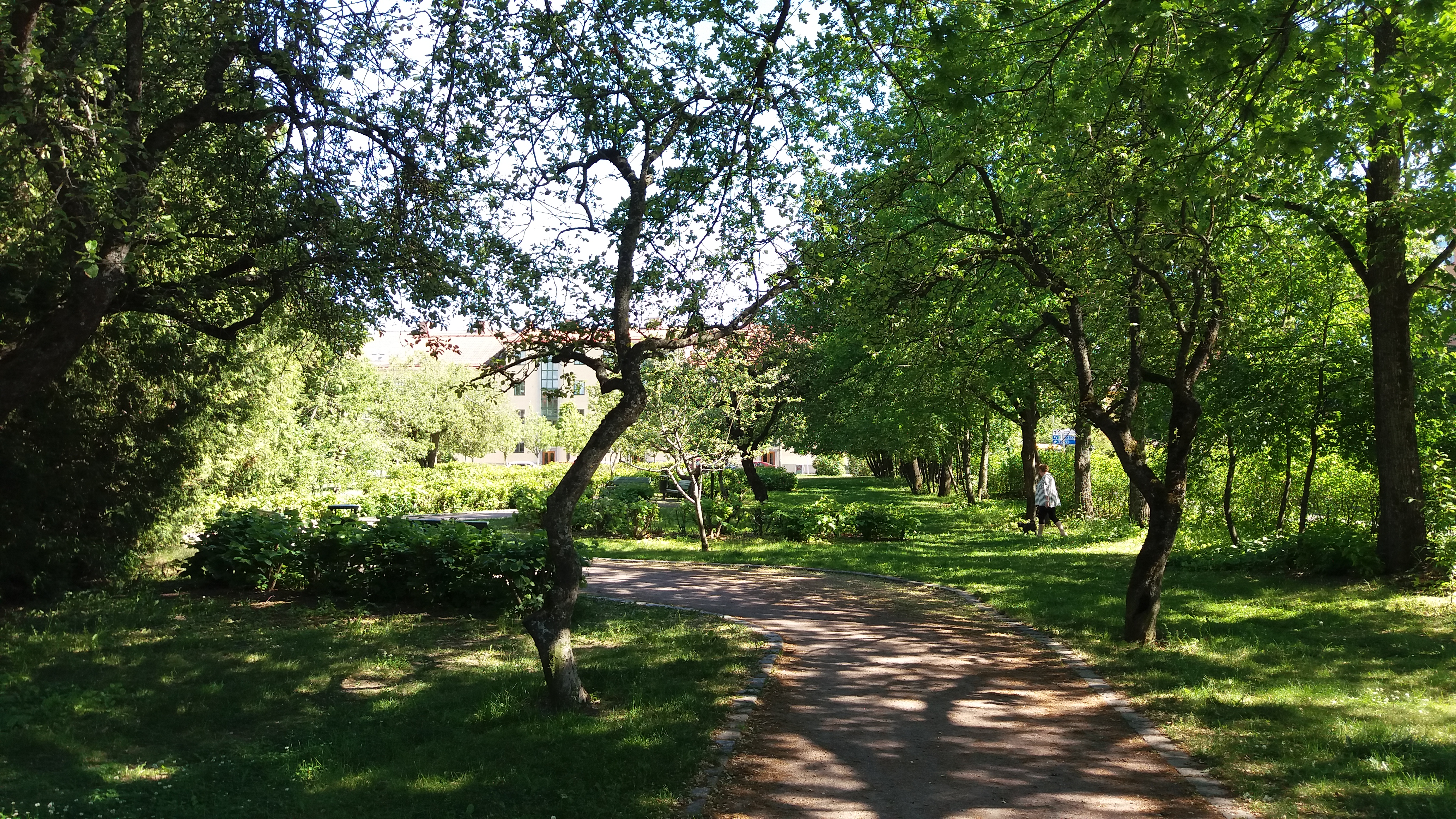 Hedströmska Kilen, Uppsala